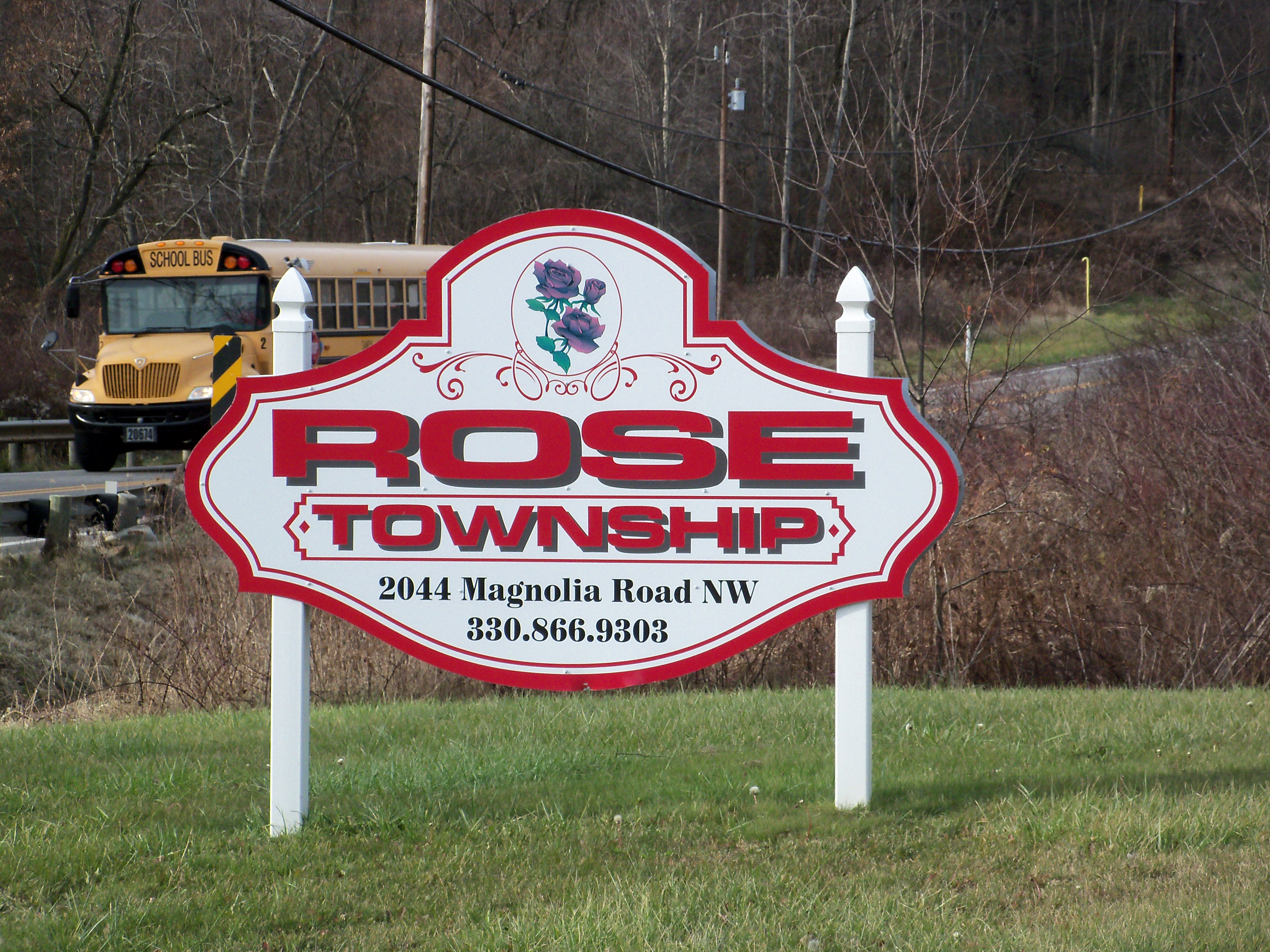 Rose Township, Carroll County, Ohio sign at township house